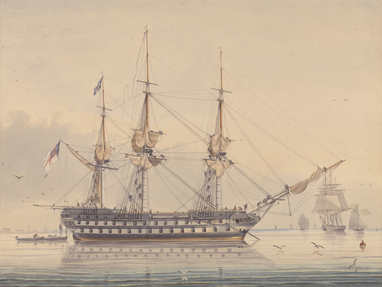 HMS Donegal Technique includes scratching out.